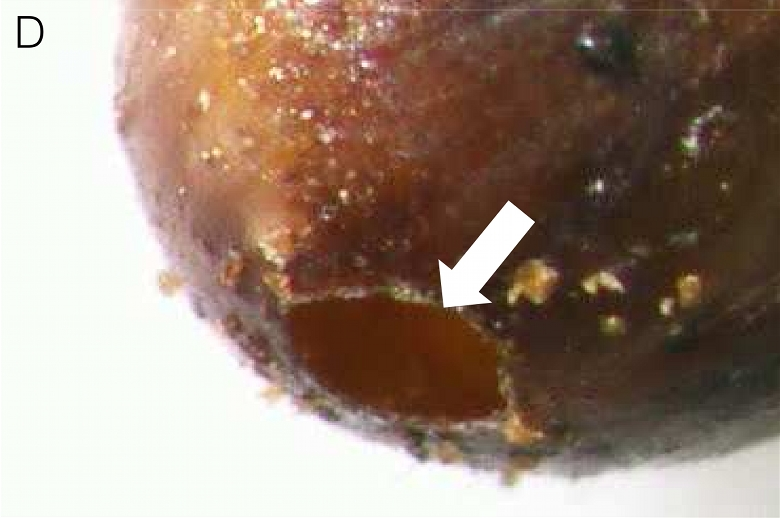 Ixodiphagus hookeri, emergence hole in the dead body of an engorged nymph of Ixodes ricinus